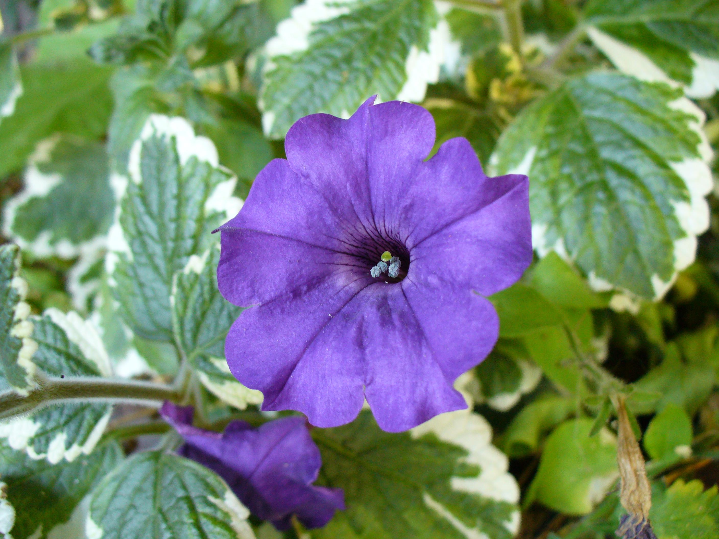 I am the originator of this photo. I hold the copyright. I release it to the public domain. This photo depicts a flower of a petunia, Petunia × hybrida, with the variegated foliage of a Plectranthus.